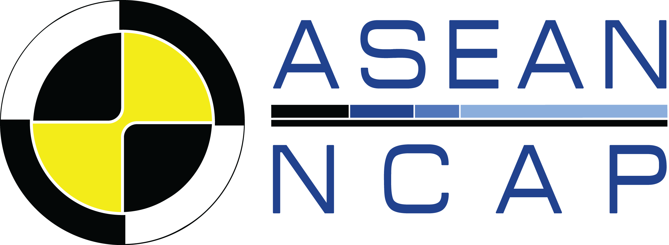 Official ASEAN NCAP Logo